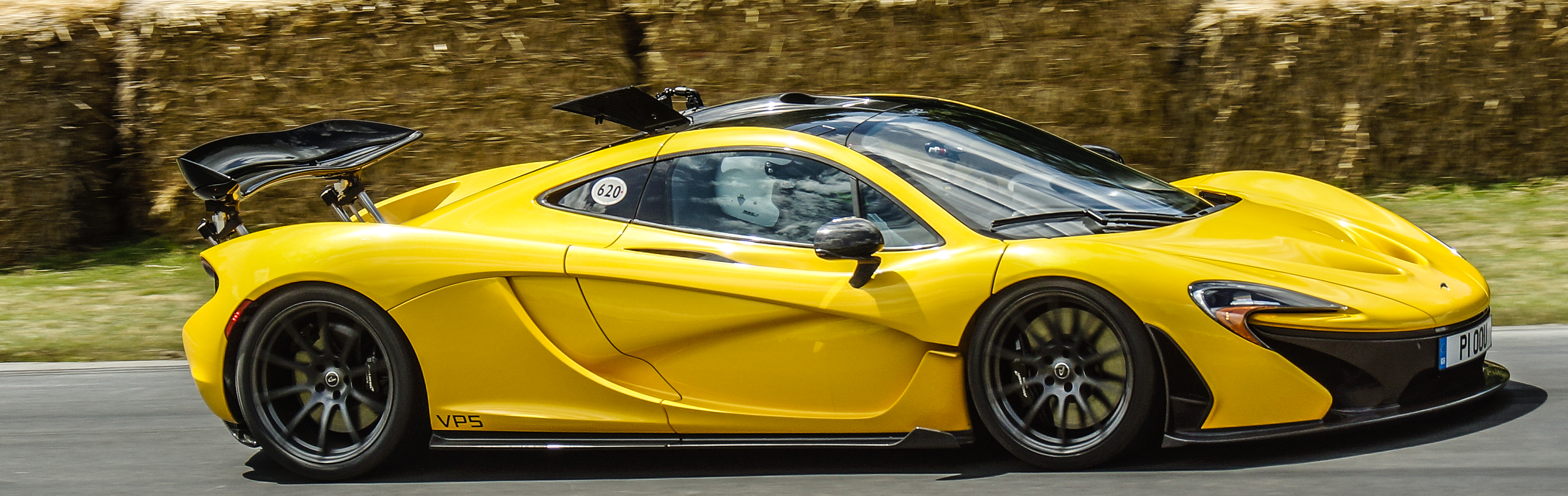 The McLaren P1 at the 2014 Goodwood Festival of Speed.